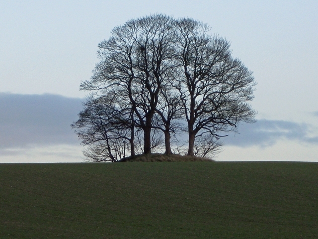 Howe Hill, Wootton "Howe Hill round barrow stands on a gentle rise in an otherwise fairly flat landscape above and to the south east of Wootton Grange and can be seen from some distance due to the crown of trees growing on it. This earth and chalk rubble monument is the most northerly of the surviving Lincolnshire barrows but unusually for the county it is not associated with any streams or rivers, the nearest one being 2-3 miles away. It measures about 17 by 11 metres, its original circular form having been reduced by plough action although it still stands to a height of around 2 metres."